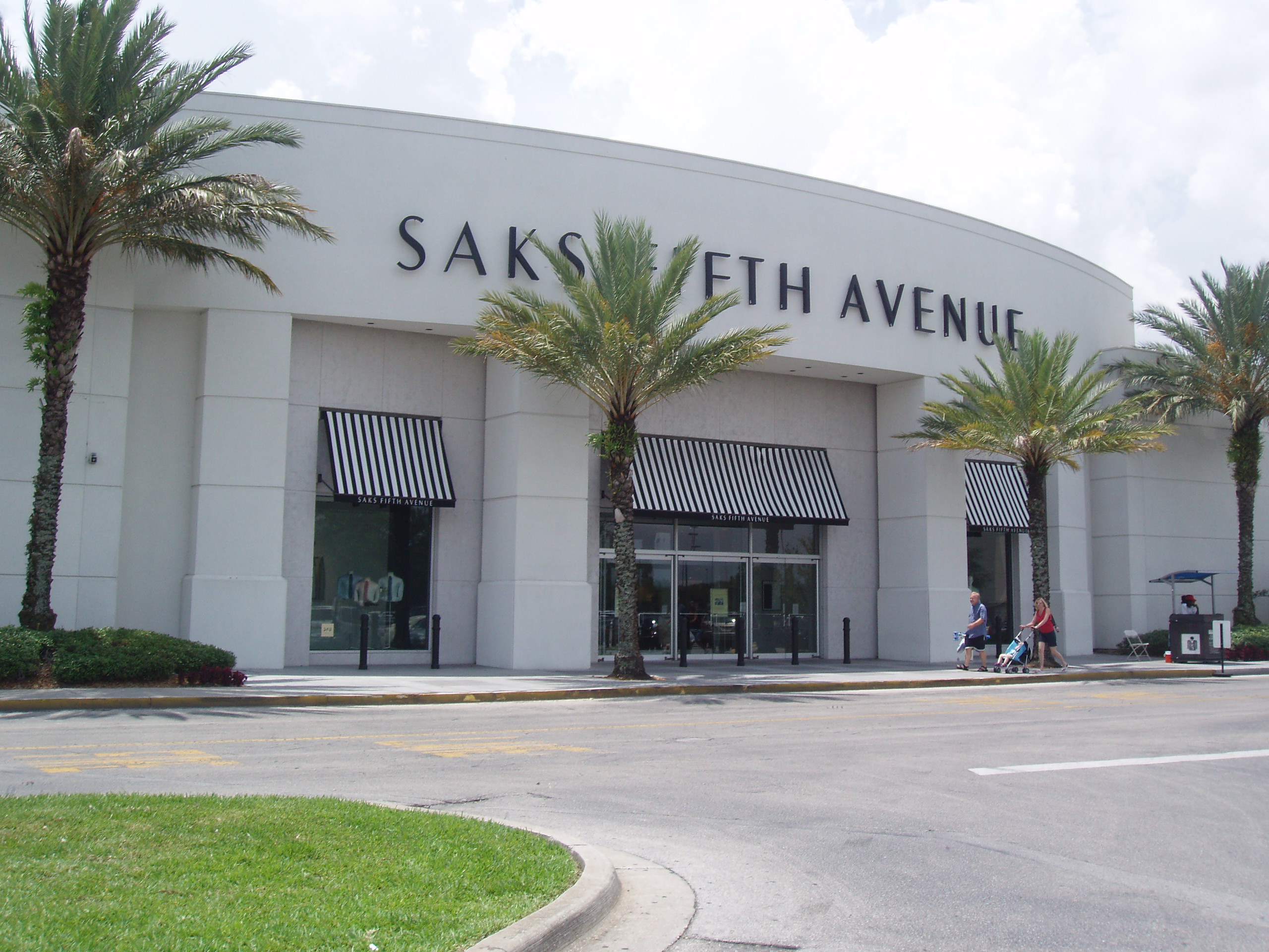 Saks Fifth Avenue in Orlando, Florida at The Florida Mall